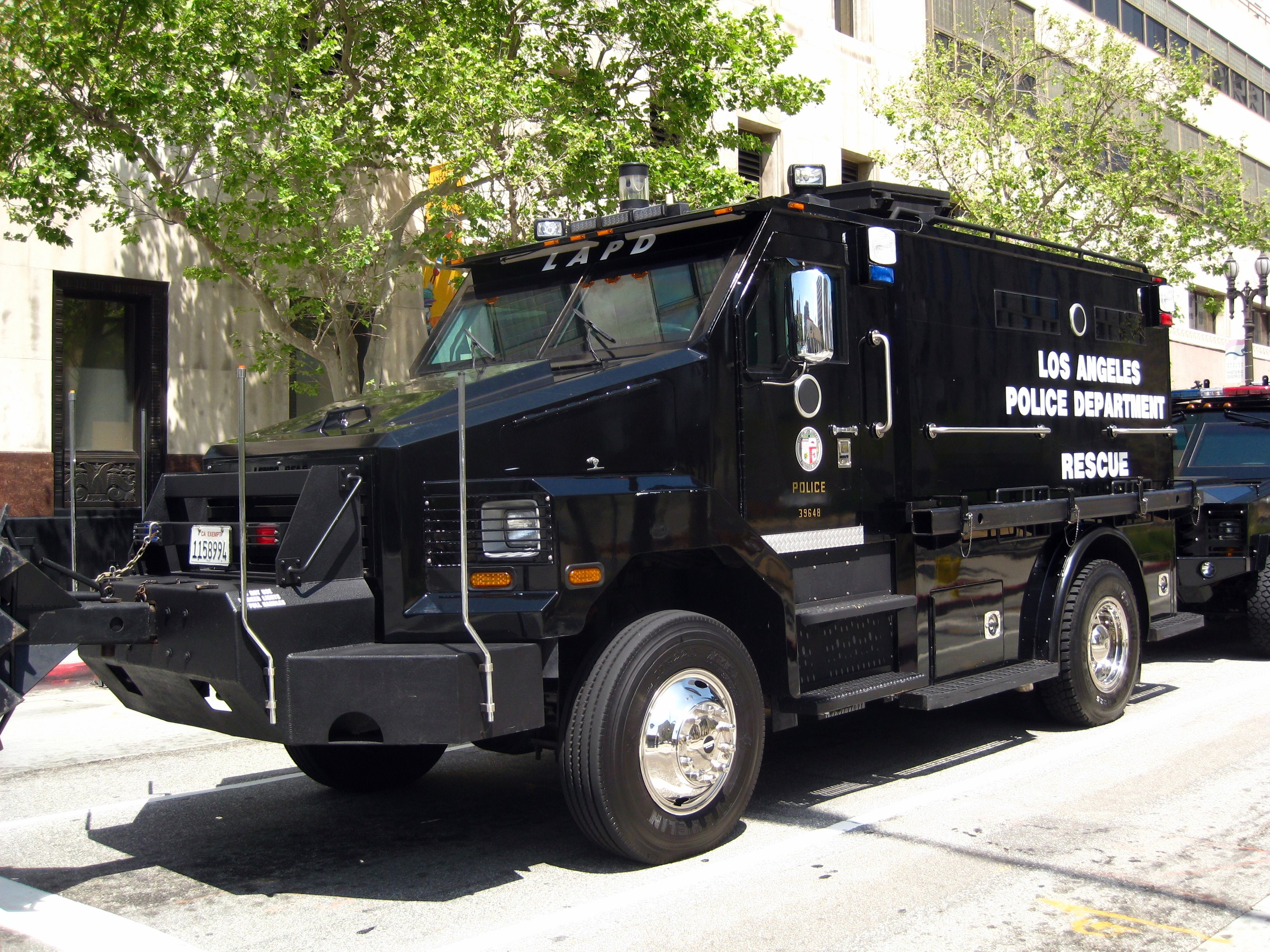 LAPD rescue vehicle with battering ram in the front